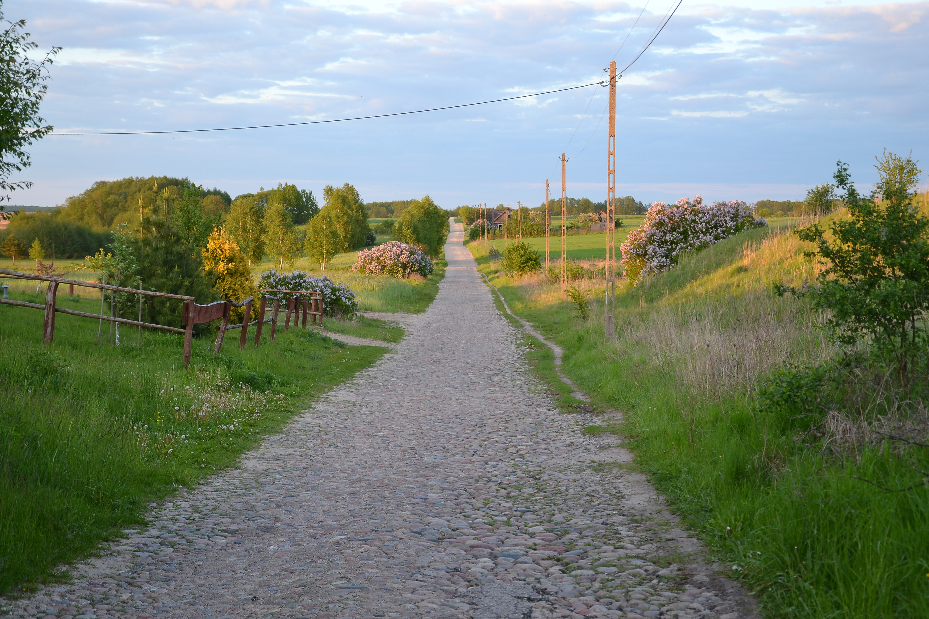 Carska Droga (Tsar valley), Goniądz, Poland